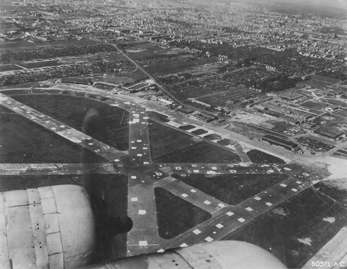 Bremen airport 1946